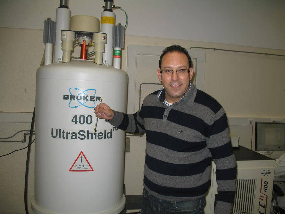 NMR picture Jamal Lasri